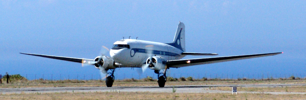 Douglas DC-3 on take-off roll at Catalina Island Airport